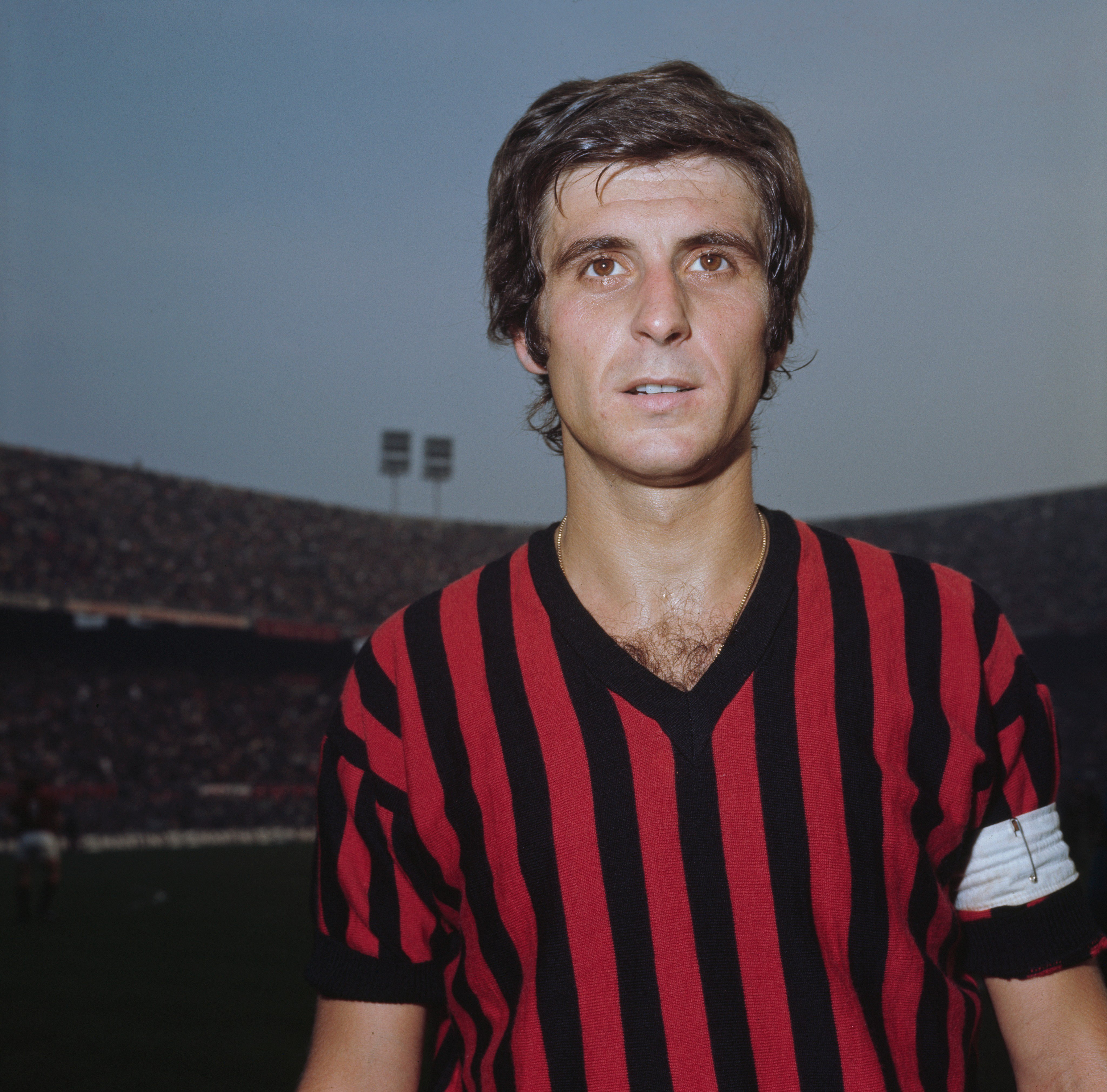 Italian footballer Gianni Rivera, captain of A.C. Milan, at San Siro in Milan, Italy, in January 1971.